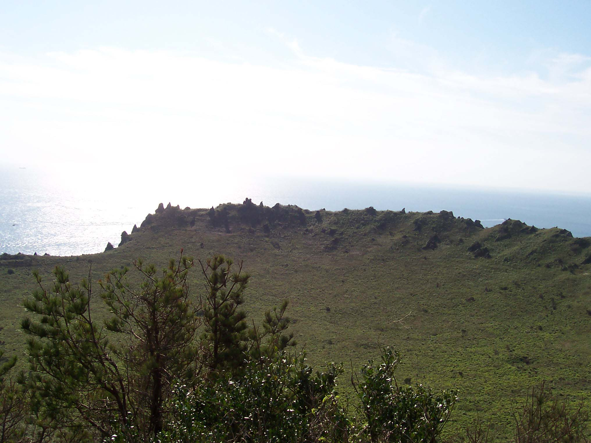 The Volcanic crater of Seongsan Ilchulbong, Jeju, South Korea